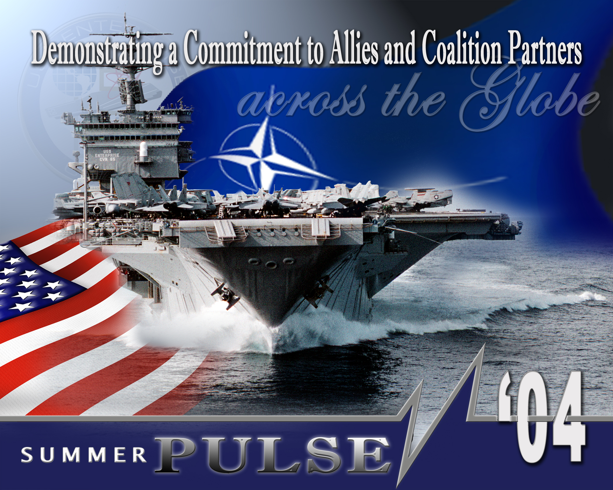 Aboard USS Enterprise (CVN 65) – Original graphic art produced by Navy photographers, and illustrator draftsman during exercises supporting Summer Pulse 2004. Summer Pulse is the simultaneous deployment of seven aircraft carrier strike groups (CSGs), demonstrating the ability of the Navy to provide credible combat power across the globe, in five theaters with other U.S., allied, and coalition military forces. Summer Pulse is the Navy's first deployment under its new Fleet Response Plan (FRP). U.S. Navy illustration (RELEASED) For more information go to